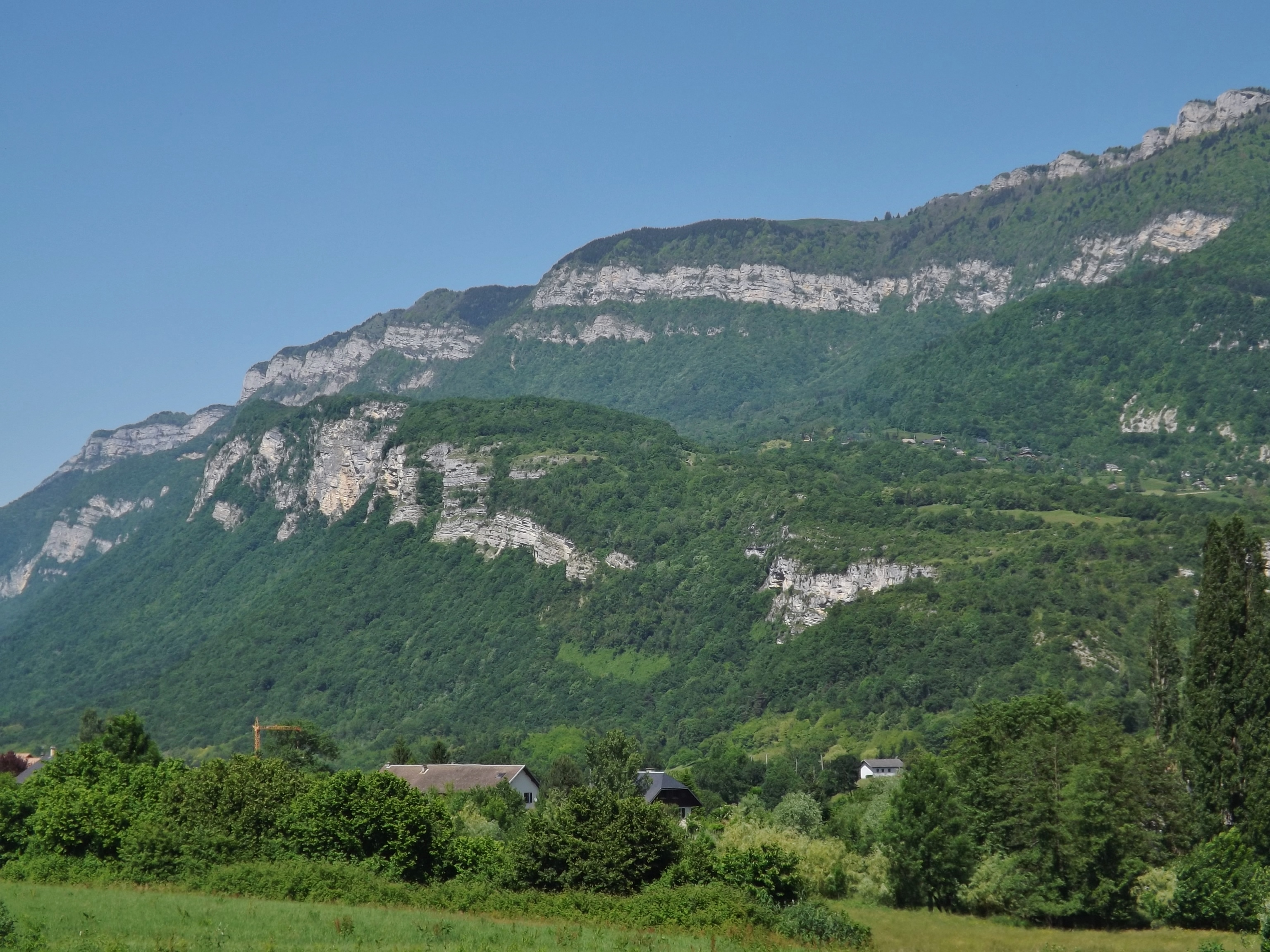 Sight of the so-called Balcons de Pragondran cliffs of Vérel-Pragondran et le massif des Bauges, from the heights of Chambéry, in Savoie, France.